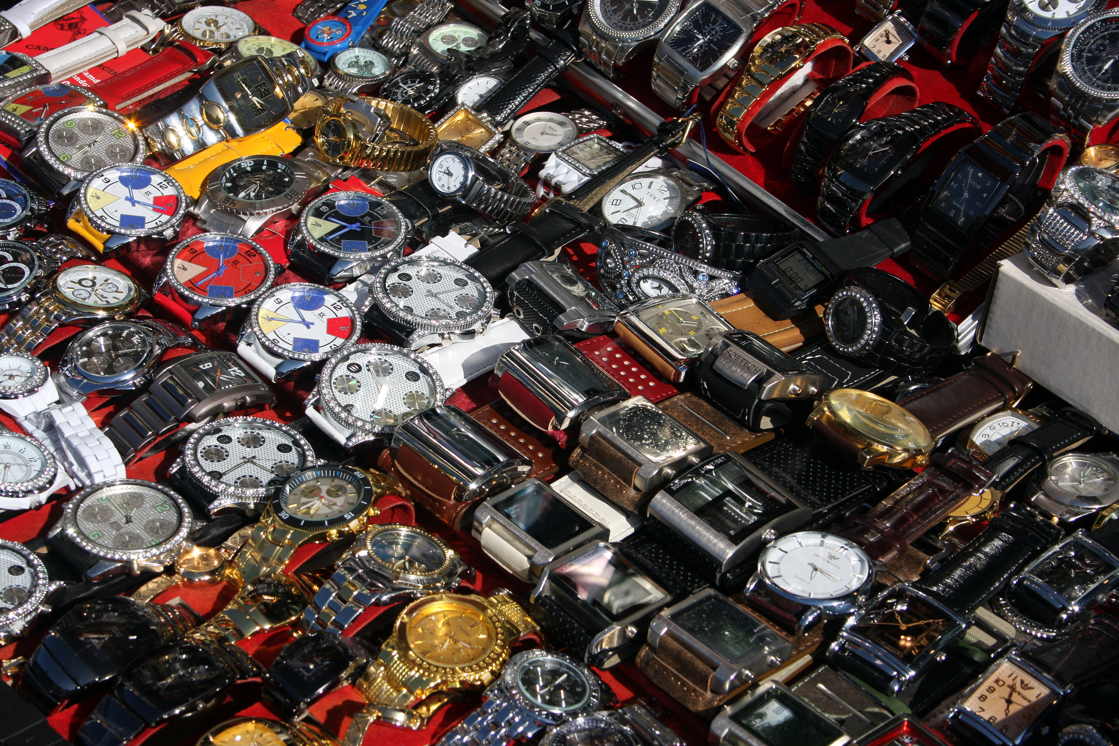 Wristwatches at a store in London.